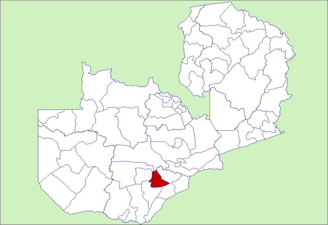 District locator in Zambia